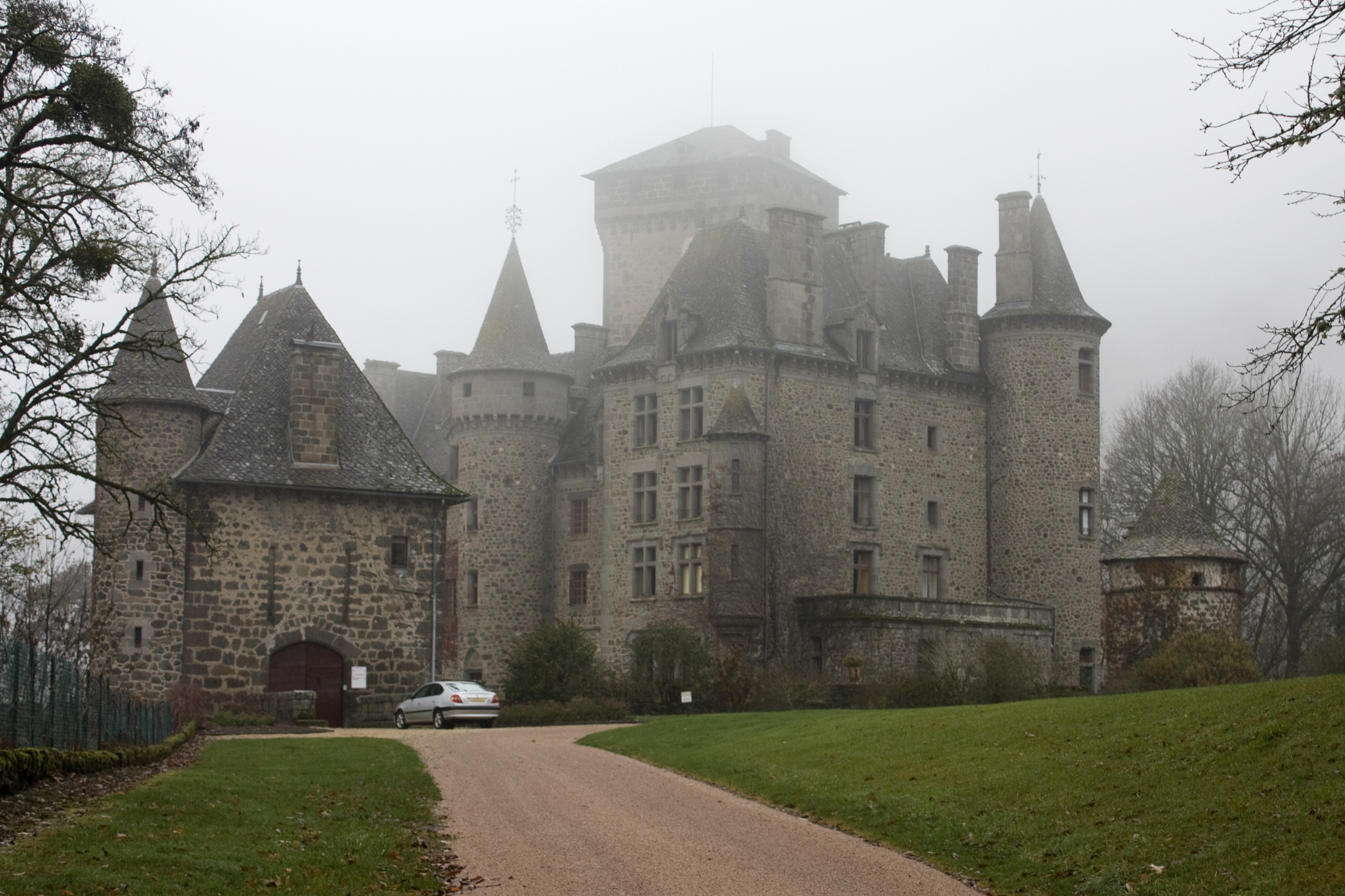 The castle of Pesteils at the entrance of the winter.